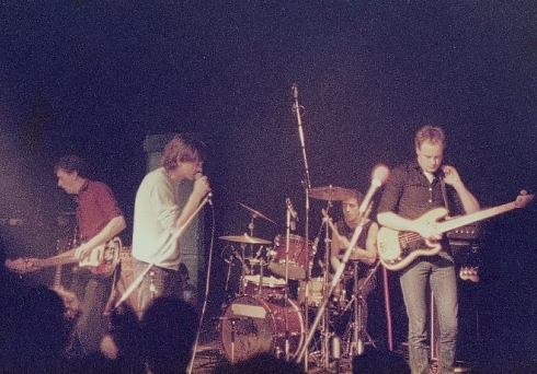 The Fall, 13. April 1984, Markthalle, Hamburg (Germany), Perverted By Language tour. Photo taken by Kekslover